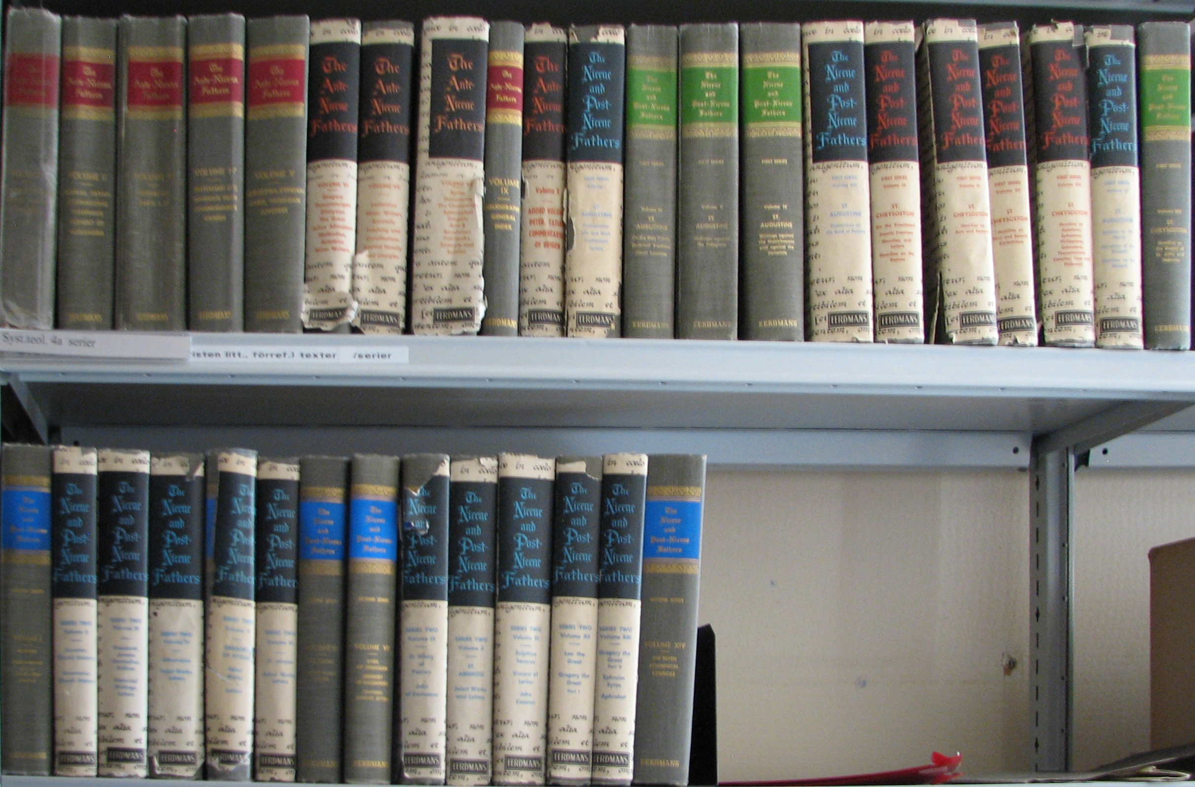 The Ante-Nicene, Nicene and Post-Nicene Church Fathers. 1950s Edition.